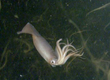 Humboldt squid (Dosidicus gigas) swarm around Tiburon, possibly attracted to its lights. Several of the large (about 1- 2 meter, or 3-6 foot) animals clouded the water with greenish-gold ink.